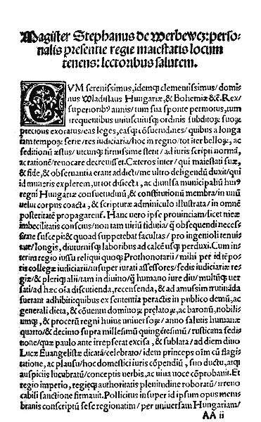 István Werbőczy, Tripartitum